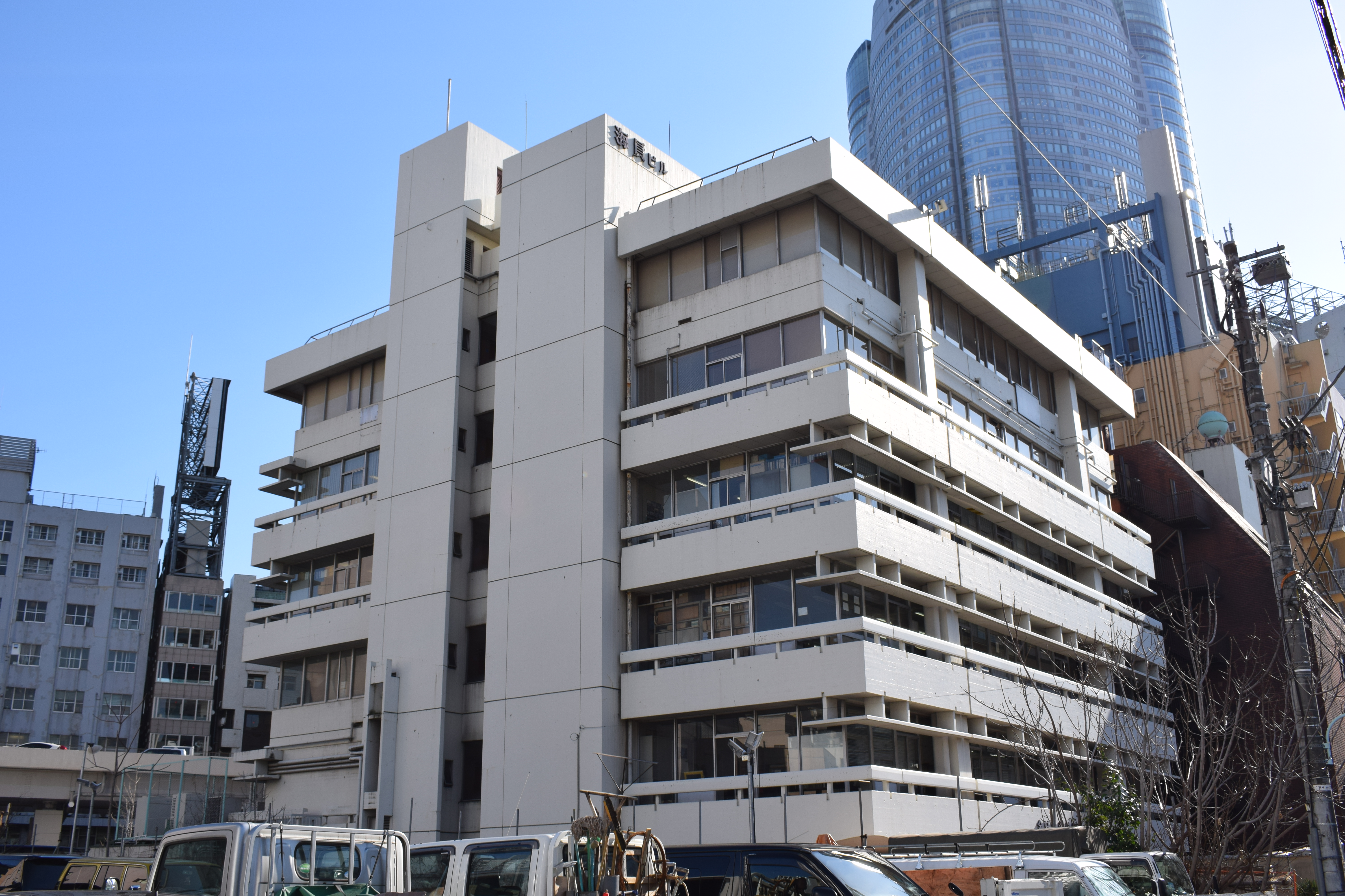 The building of All Japan Seamen’s Union in Roppongi, Tokyo, Japan.